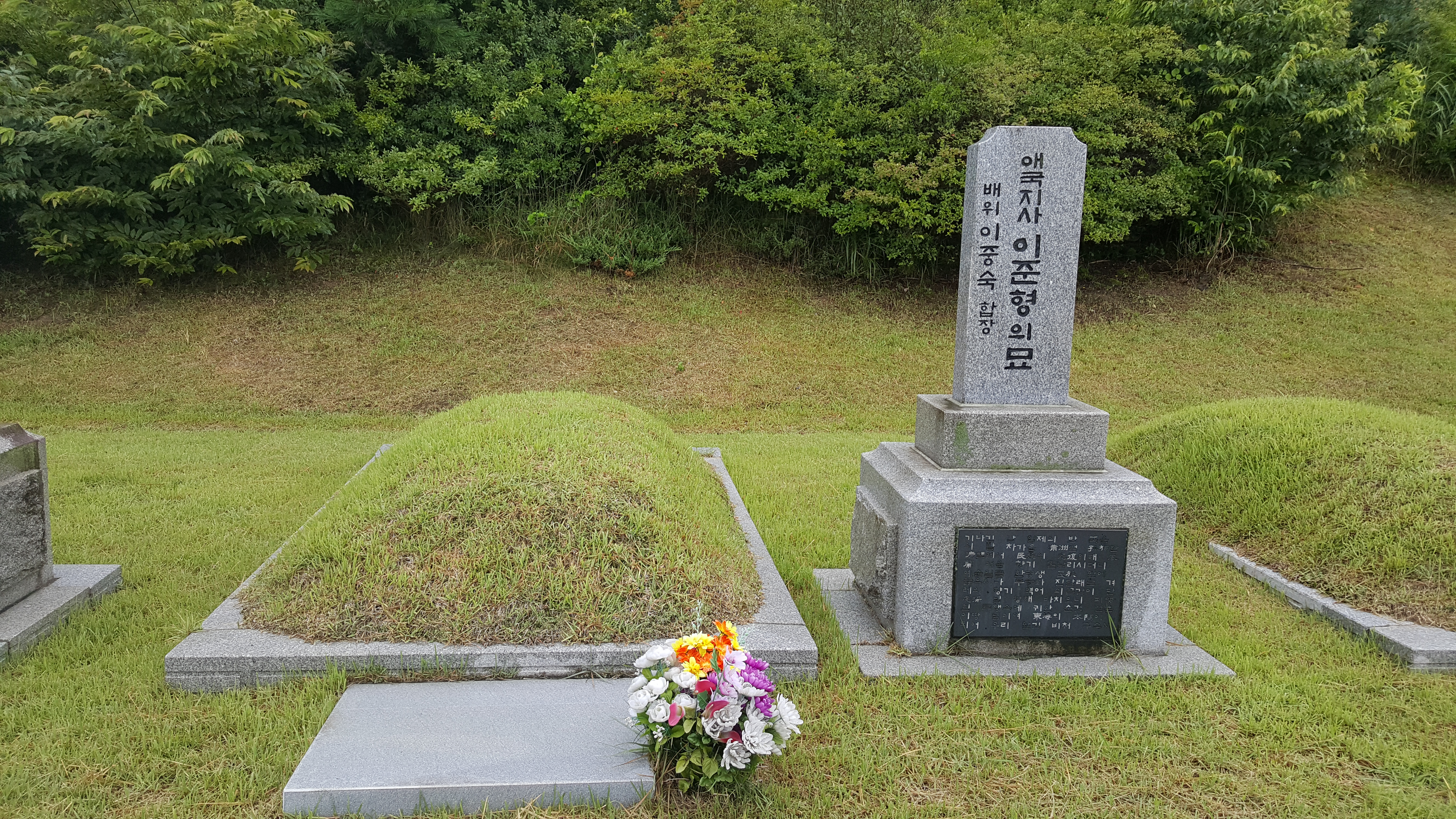 Memorating Patriot Lee's